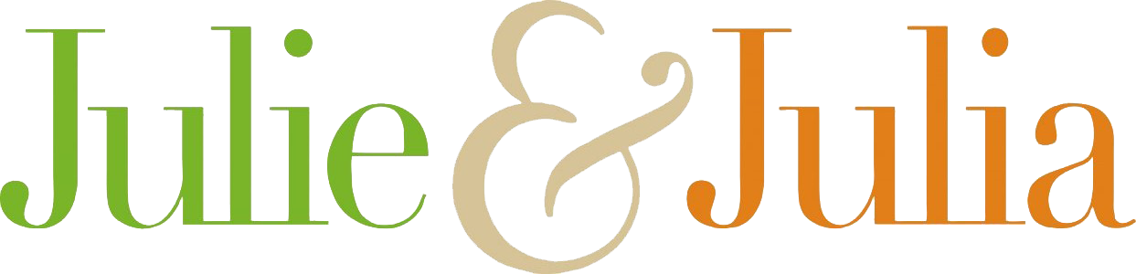 Julie and Julia logo